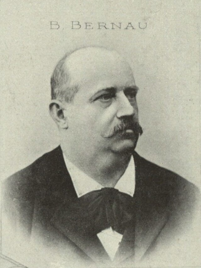 Portrait of Bedřich Bernau (1849-1904), also known as Friedrich Bernau or Přemysl Bačkora, Czech manager of sugar factories and writer of books about monuments and regions of Bohemia.